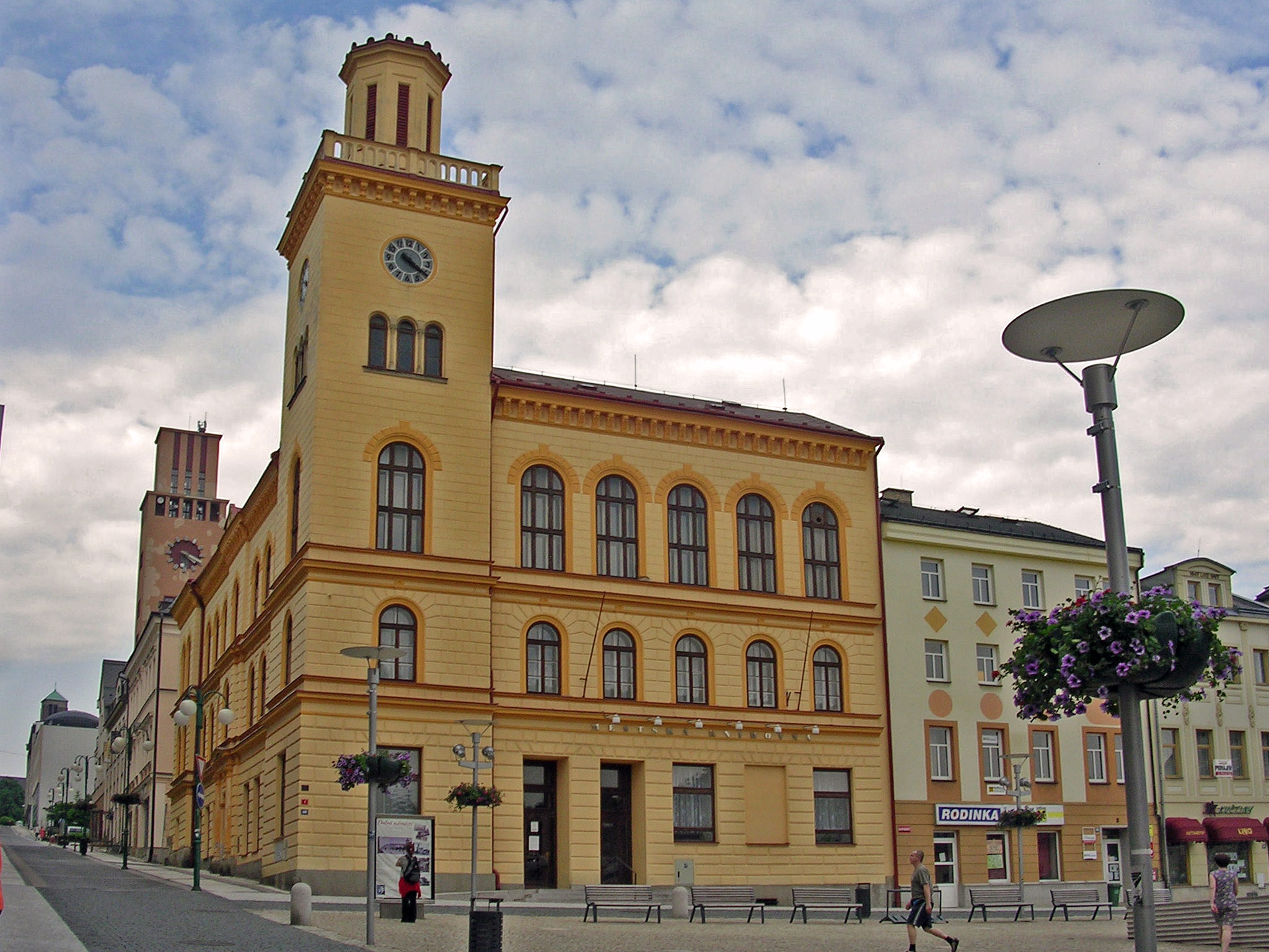 Jablonec nad Nisou. The Czech Republic. Town hall.